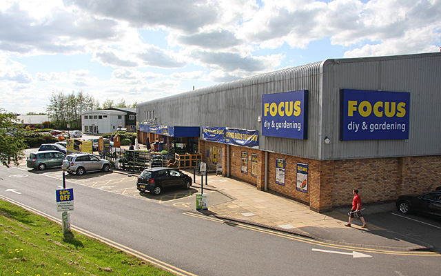 I Want A Refund It looks like the fork being carried by the man on the right wasn't up to the job and has snapped. Focus DIY and gardening centre beside Leicester Road in Melton Mowbray.